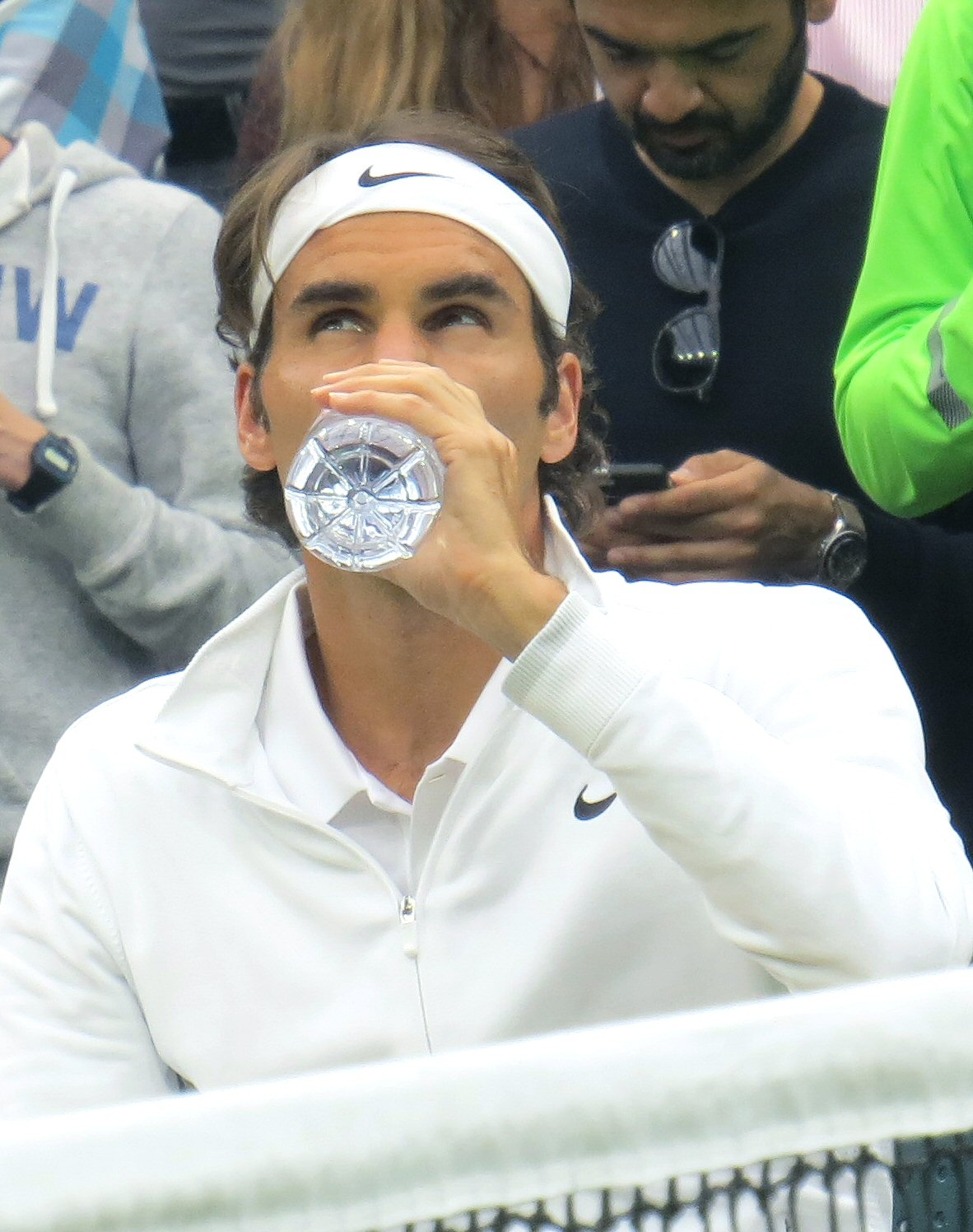 Roger Federer at Wimbledon 2014